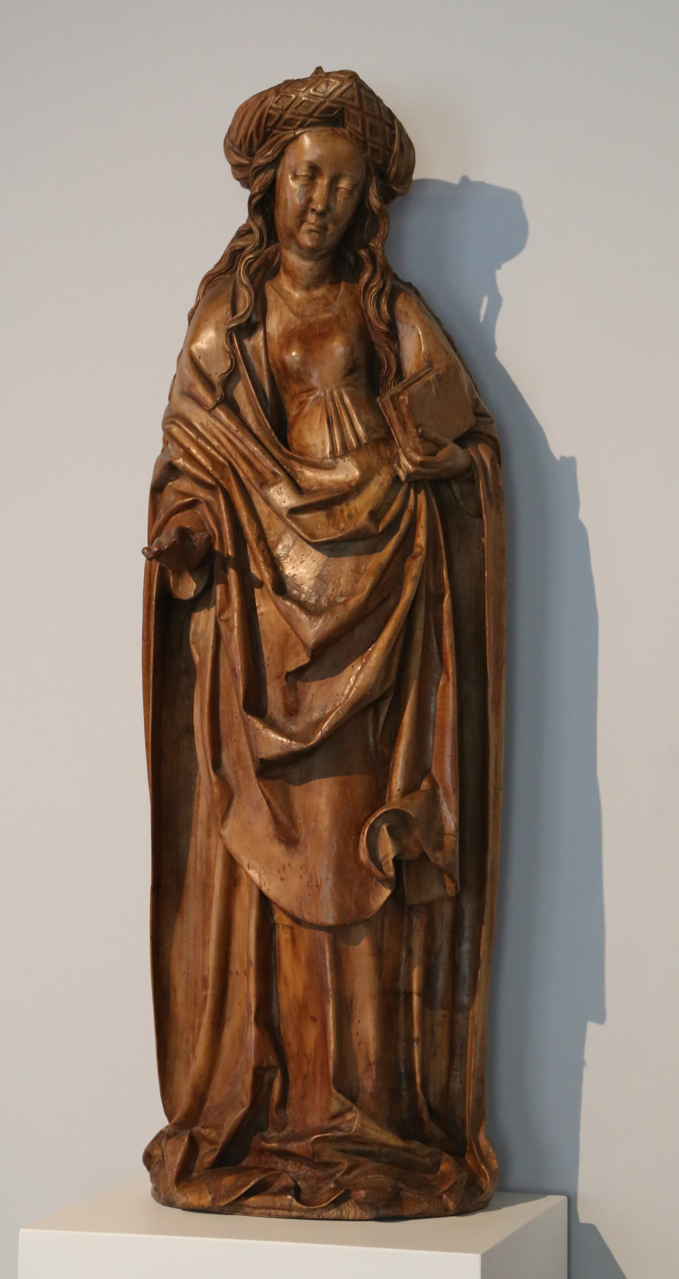 Niklaus Weckmann: Hl. Katharina, Ulm, um 1510, Lindenholz, ehem. farbig gefasst; Ulmer Museum Niklaus Weckmann (1481–1526) Alternative names Weckmann, NikolausDescriptionGerman sculptorDate of birth/death 1481 1526 Location of birth/death UlmWork period1481–1526Work location Ulm Authority control : Q1990482 VIAF: 5733801 ISNI: 0000 0000 8085 5295 LCCN: nr94023526 GND: 119107392 RKD: 114578 WorldCat creator QS:P170,Q1990482